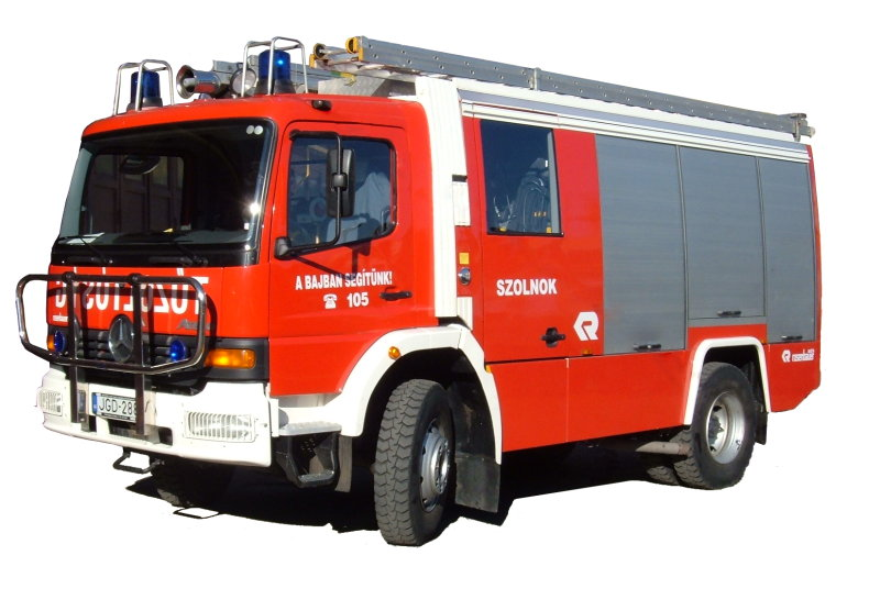 A fire engine from Szolnok Fire Station (Hungary)